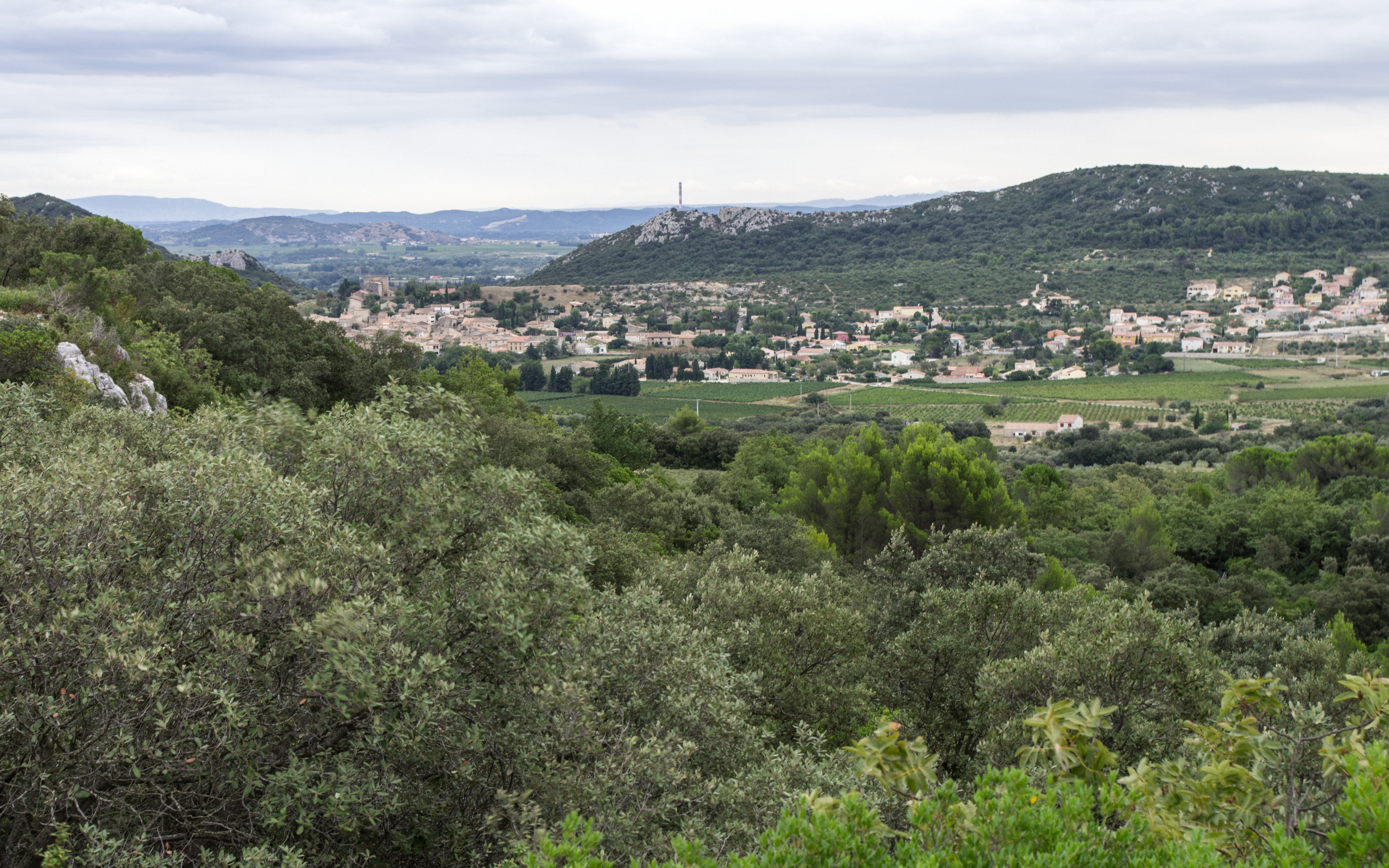 Saint-Bonnet-du-Gard from the garrigue. Saint-Bonnet-du-Gard, Gard, France.